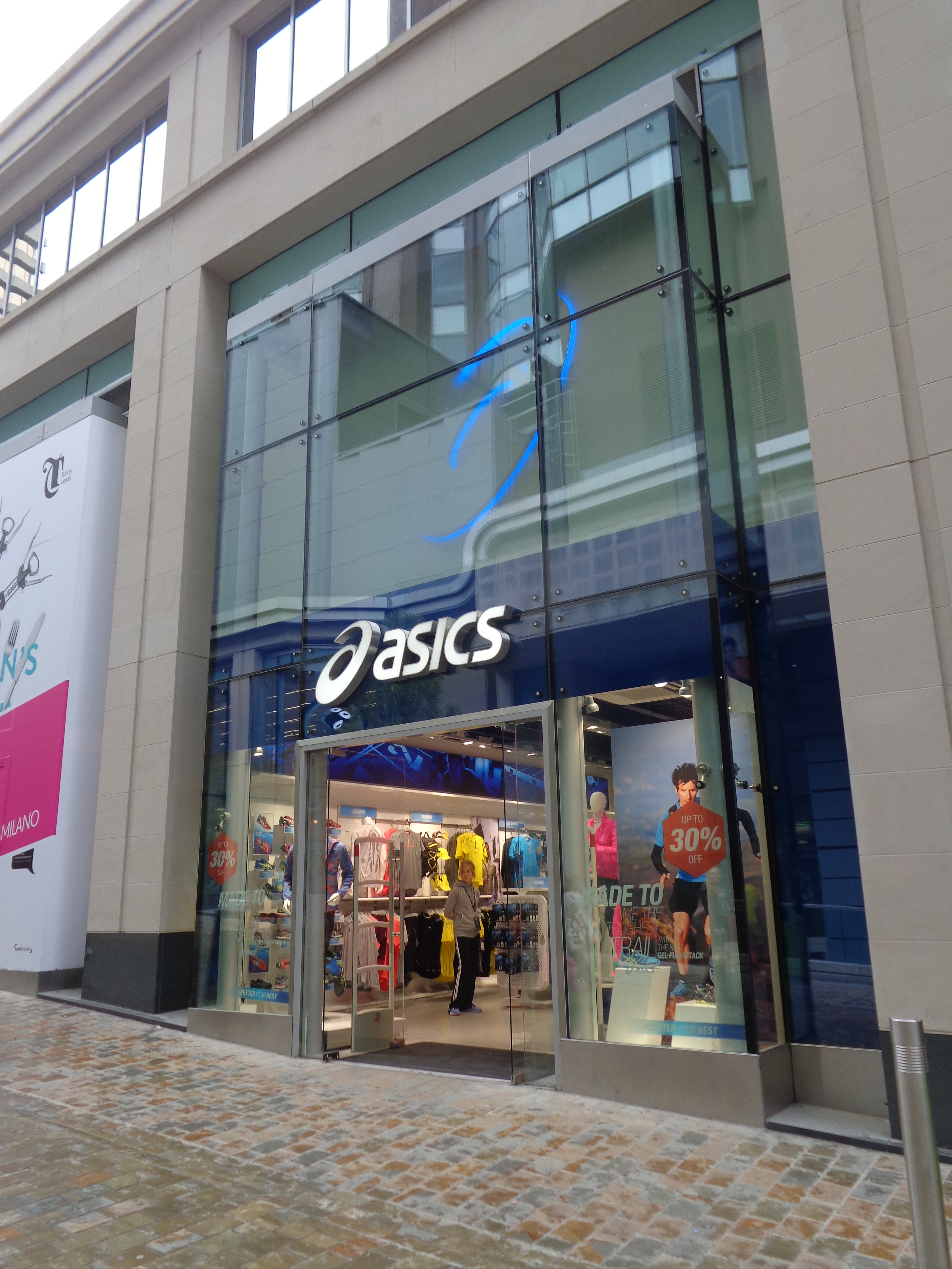 Asics shop, Albion Street, Leeds, West Yorkshire. Taken on the afternoon of Saturday the 12th of April 2014.